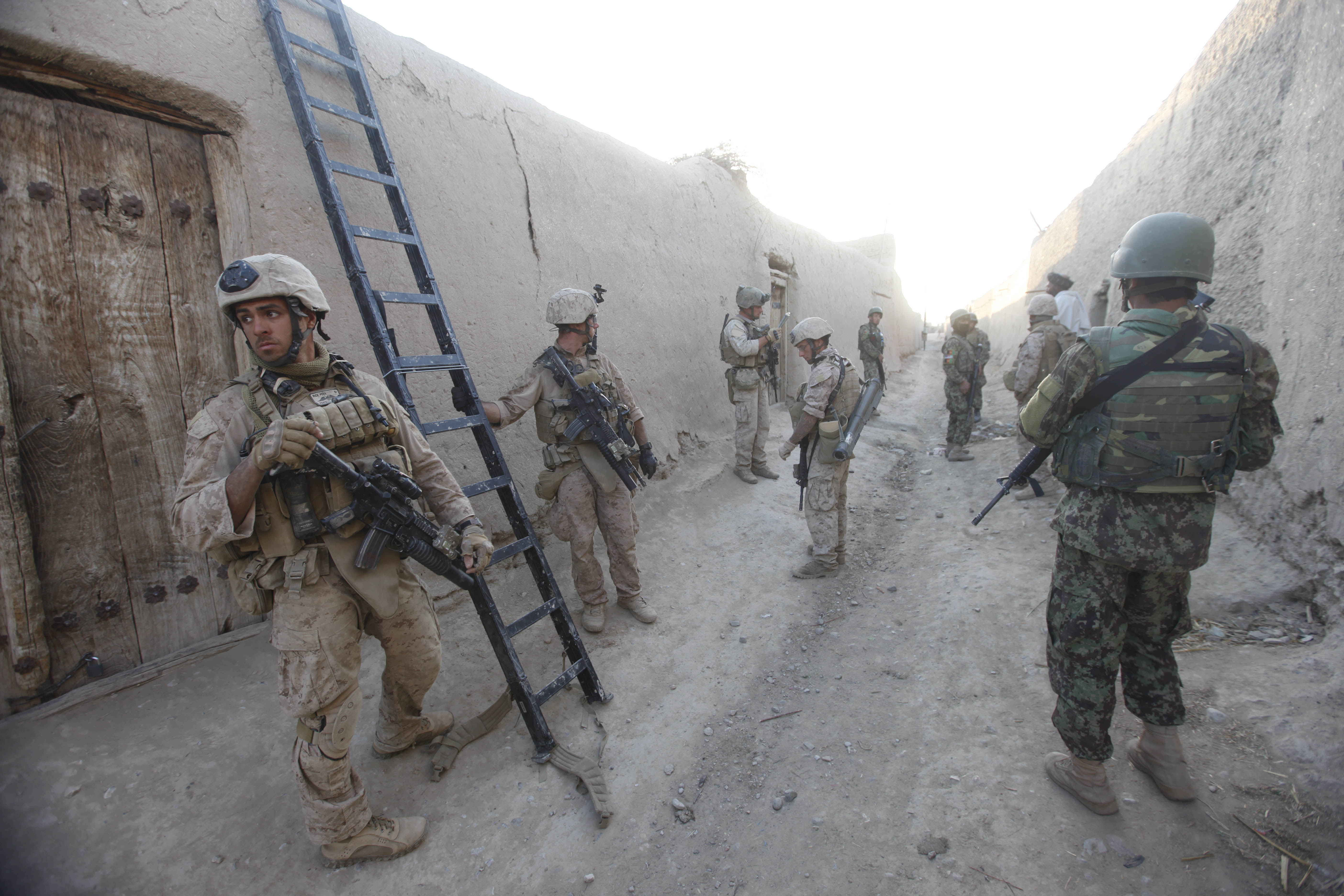 U.S. Marines with 3rd Platoon, Bravo Company, 2nd Reconnaissance Battalion, 2nd Marine Division and Afghan National Army soldiers prepare to clear a compound during a city sweep of Sar Buzeh, Nimroz province, Afghanistan, on March 29, 2011. The Marines and Afghan soldiers talked with residents of Sar Buzeh about domestic concerns and to gain information about Taliban movement in the area.